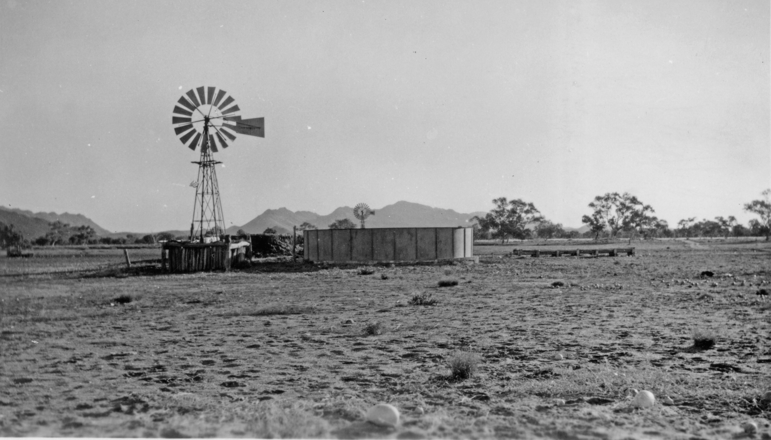 Mount Riddock Station in Central Australia in 1956. (PH0764/0465)